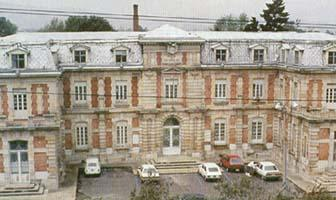 Centro Administrativo de el Hospital San Juan de Dios de Bogotá built as a French Style Building made to resemble the Pasteur Institute in Paris. circa. 1921